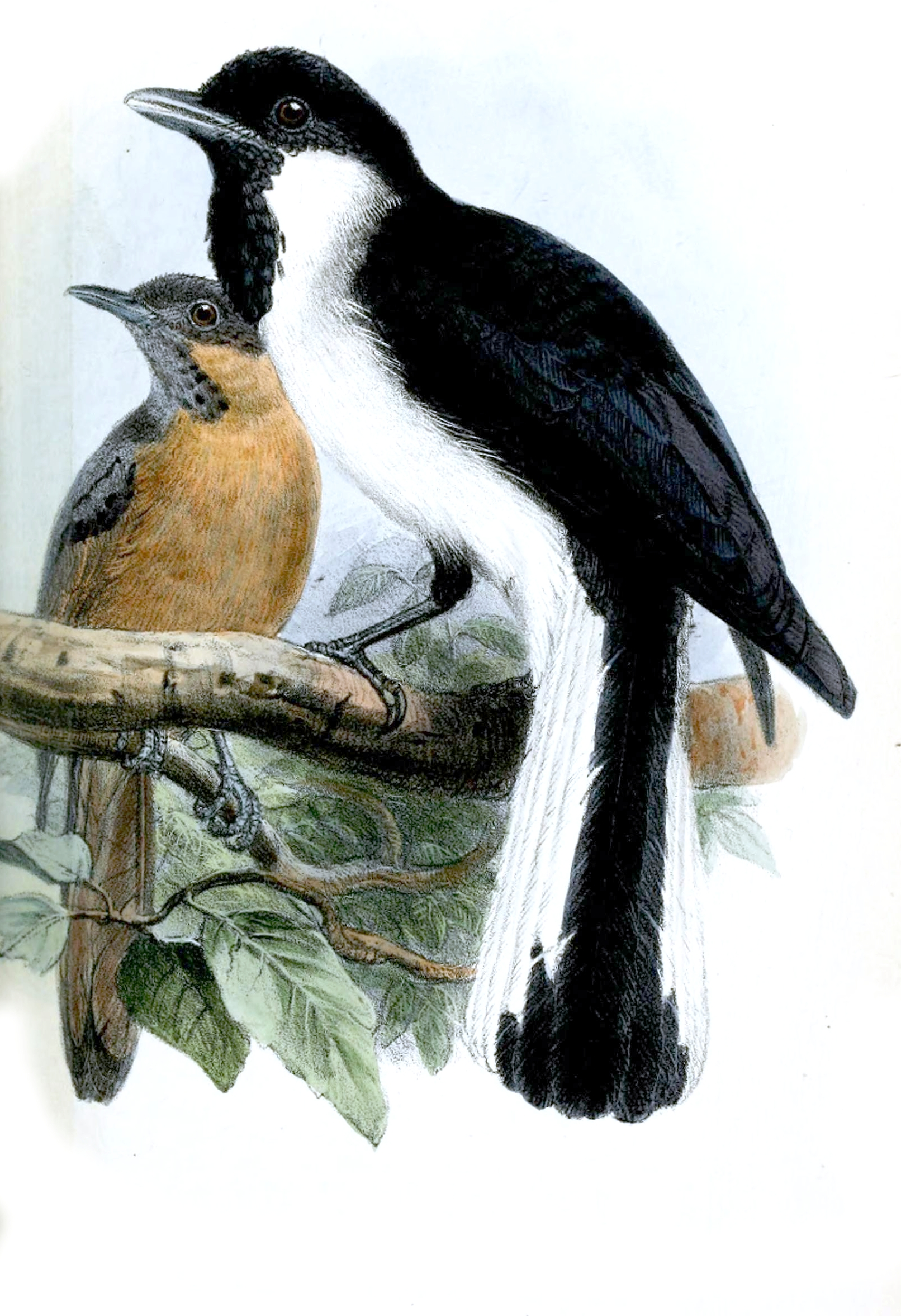 Black-tipped Monarch, adult (right) and immature (left)